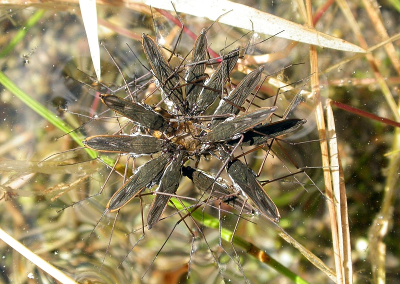 Gerris species with Apis mellifera as prey, Valle Maggia, Ticino, Switzerland